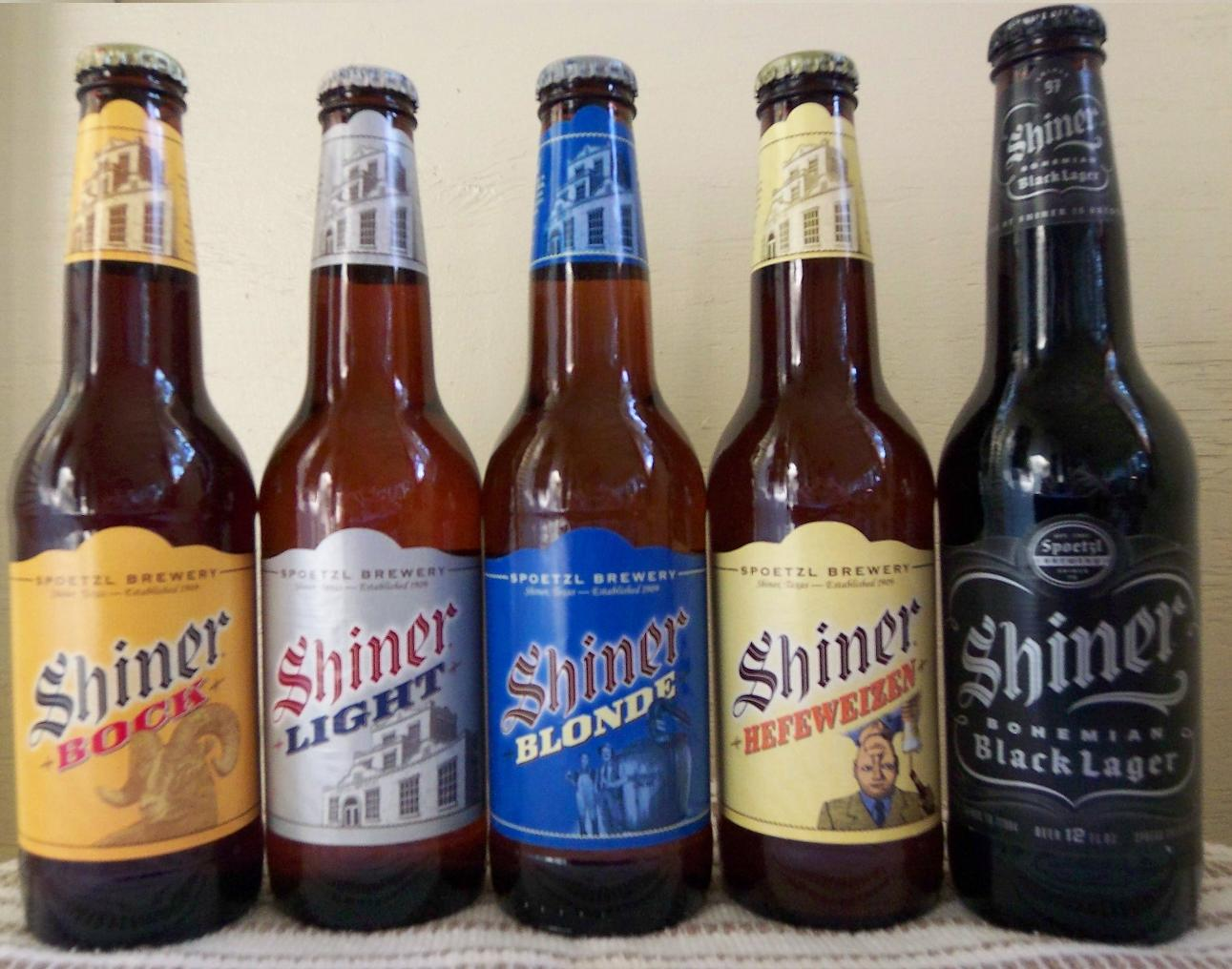 The Spoetzl Brewery's current lineup of beers.